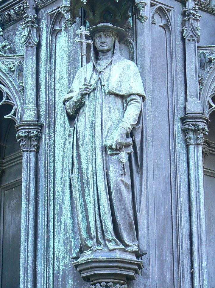 Jan Očko of Vlašim, first Czech cardinal (detail of the pedestal of the statue of Charles IV, Holy Roman Emperor; Křižovnické Square, Prague, Czechia))